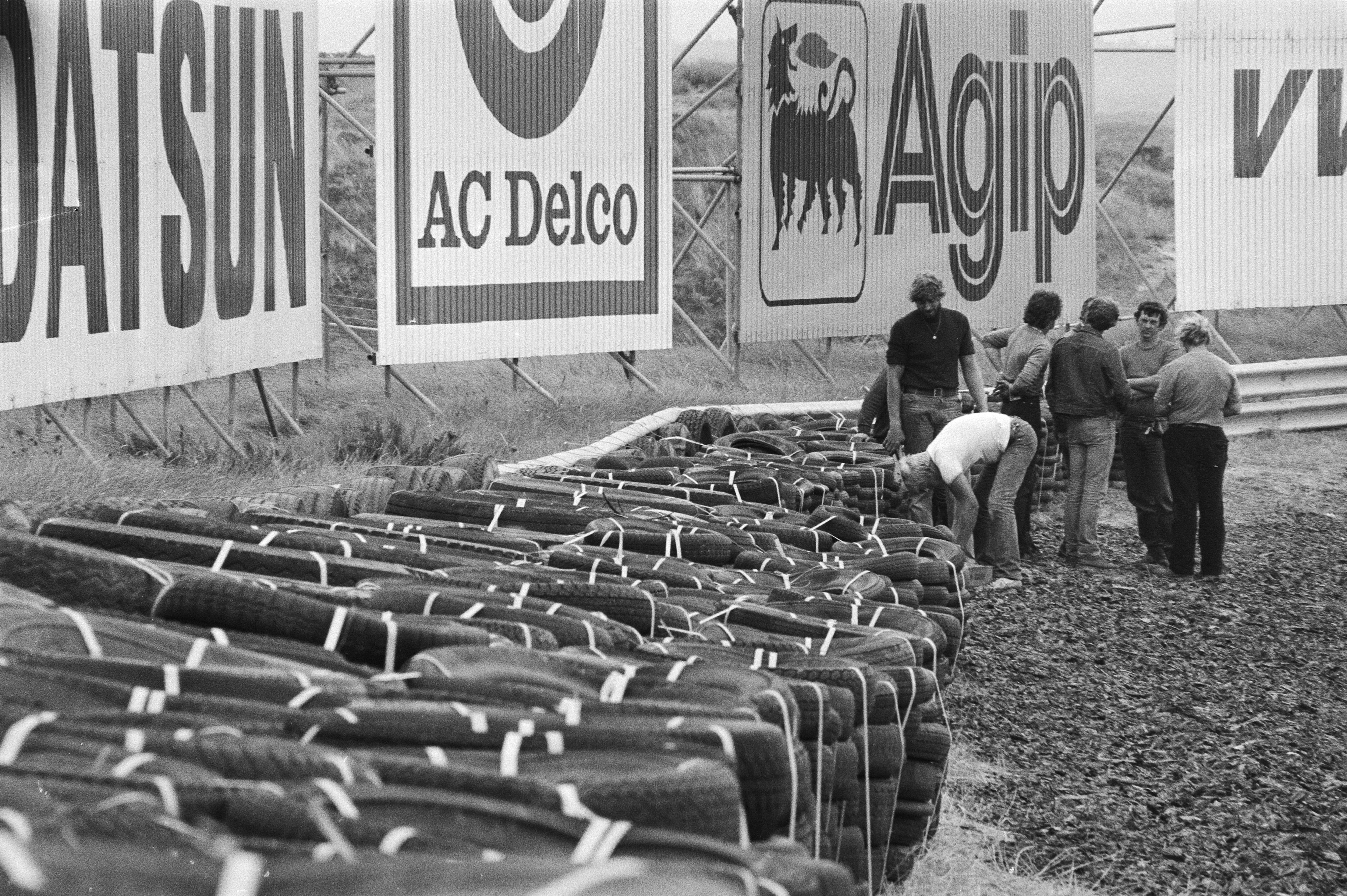 Tyre wall at GP Zandvoort